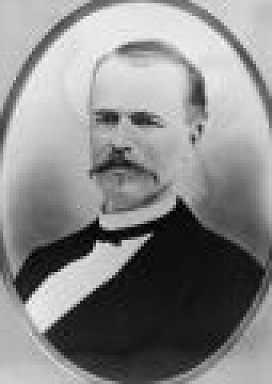 Image of Levi Ruggles (1824-1889), "Father of Florence, Arizona", taken C. 1880. The picture was taken 43 years before the 1923 copyright laws applied.